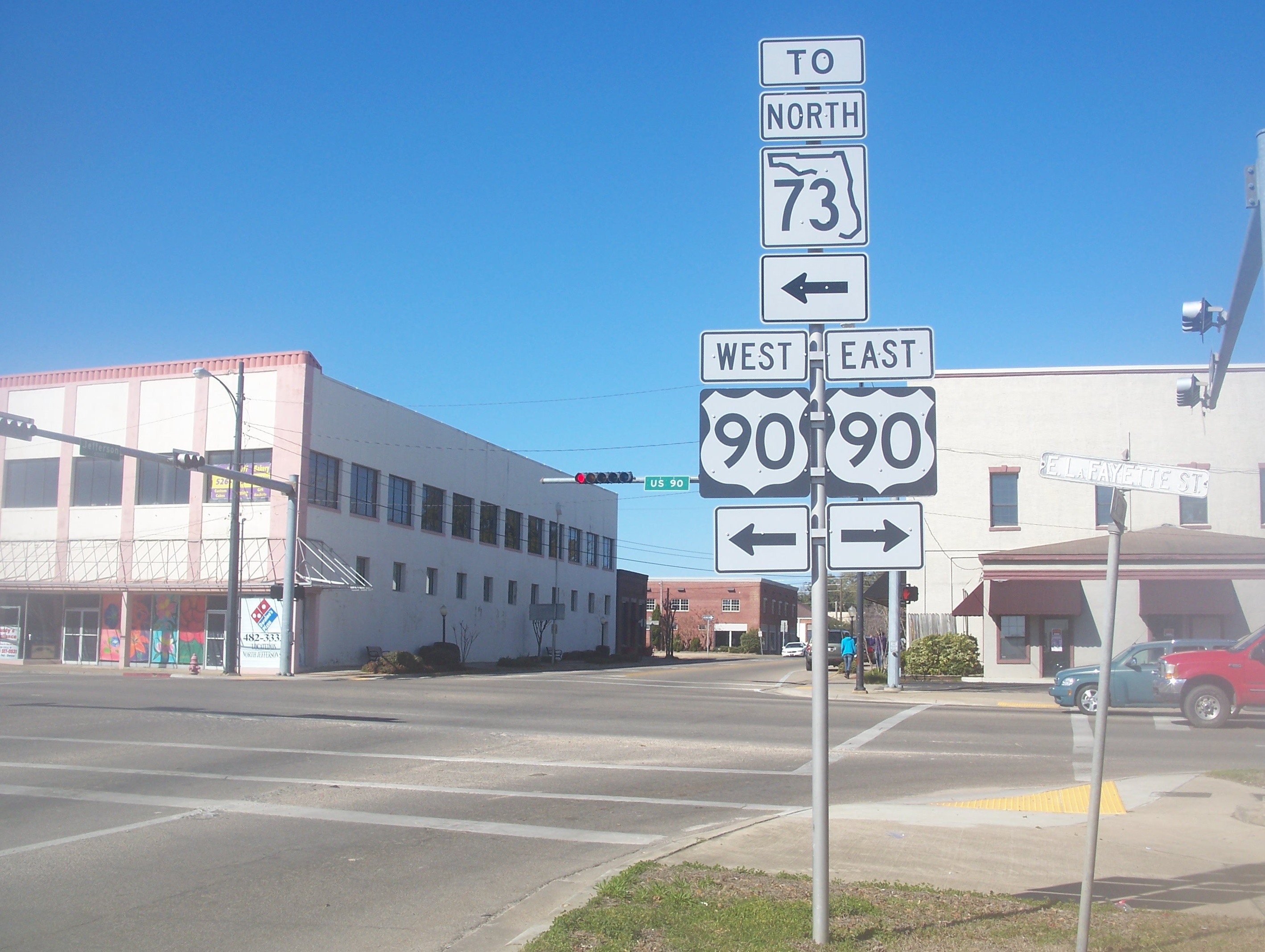 Marianna, Florida: US 90 intersection near courthouse